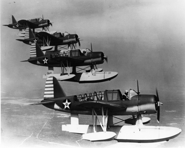 PictionID:40959935 - Catalog:Array - Title:Array - Filename:16_000188 Vought OS2U-1 1942 via Edo Corp.tif - - Ray Wagner was Archivist at the San Diego Air and Space Museum for several years and is an author of several books on aviation --- ---Please Tag these images so that the information can be permanently stored with the digital file.---Repository: San Diego Air and Space Museum